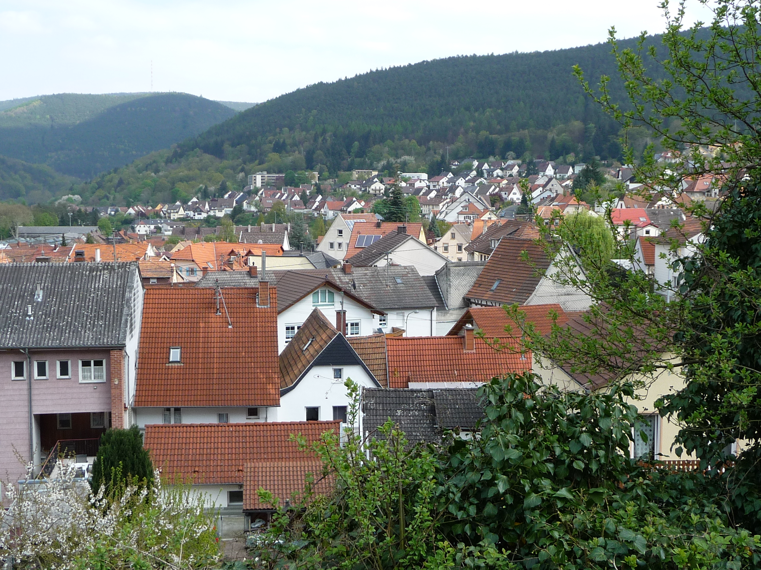 Lambrecht (Pfalz)